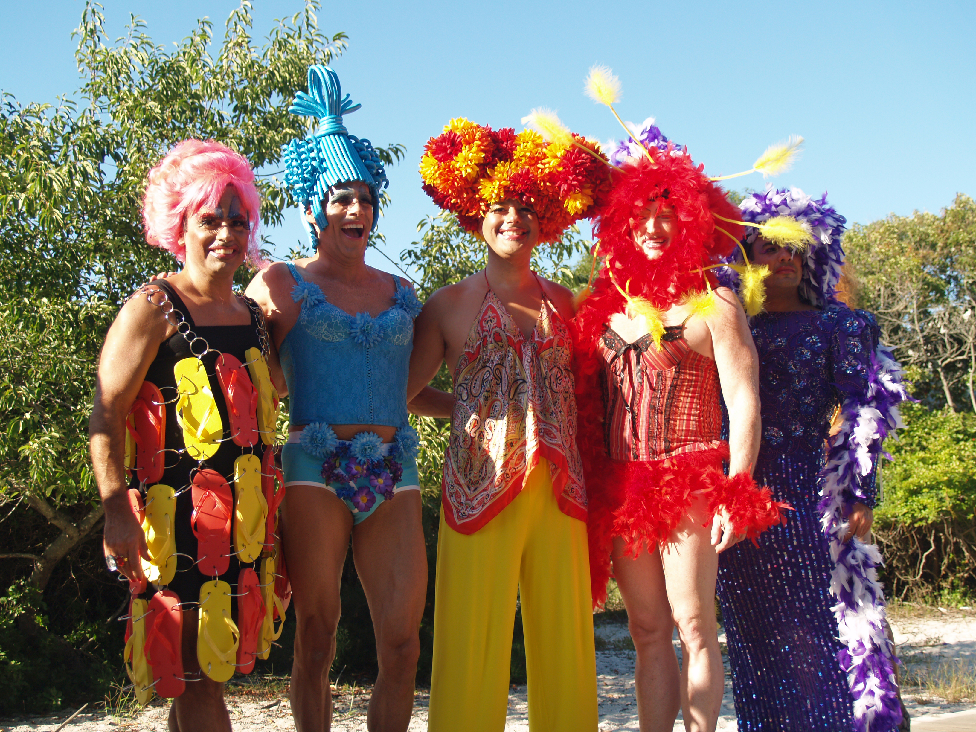 Priscilla Queen of the Dessert drag queen homage on Fire Island